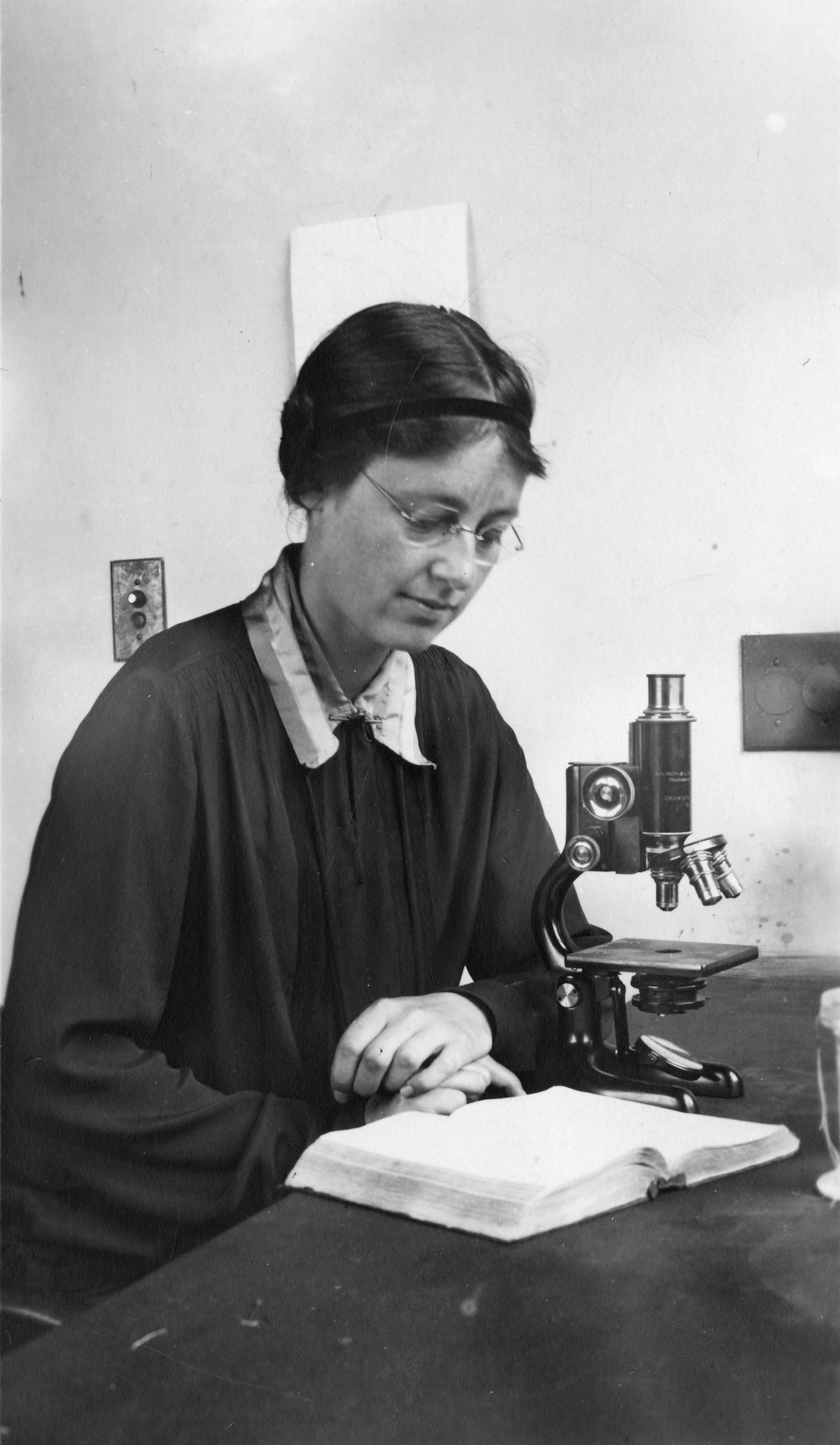 British botanist Kathleen Mary Drew-Baker (1901-1957), born in Leigh, Lancashire, is best known for her research on the edible seaweed Porphyra laciniata (nori). Her analysis of the nori lifecycle provided assistance to Japanese farmers suffering from unpredictable harvests, saving the Japanese seaweed industry. Building on her work, Japanese scientists developed artificial seeding techniques which increased production. Drew-Baker spent most of her academic life at the University of Manchester’s cryptogamic botany department, serving as a Lecturer in Botany, then Researcher from 1922 to 1957. She also spent two years working at the University of California. She was one of the founders of the British Phycological Society and served as its first president.